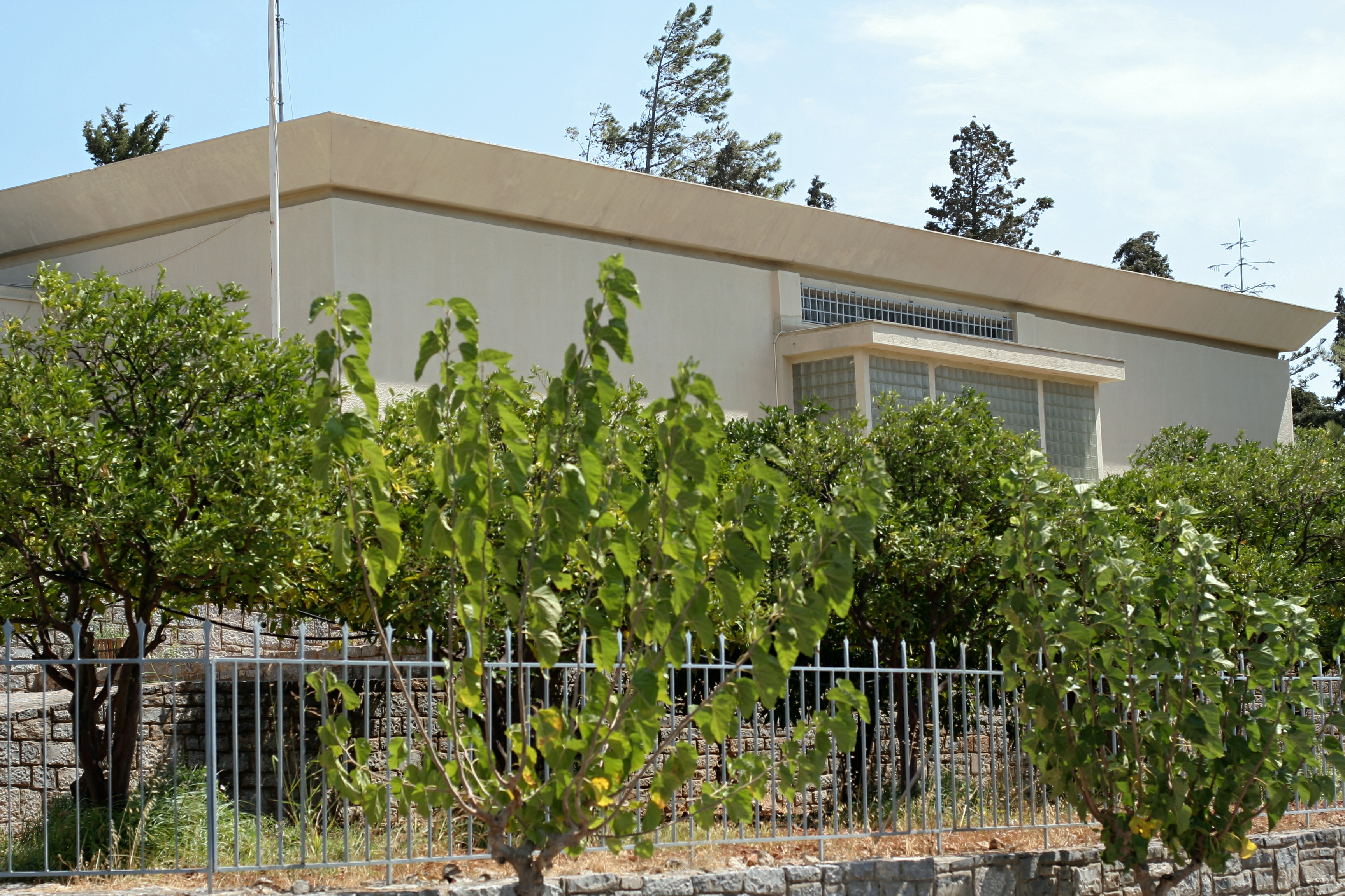 Archaeological Museum of Agios Nikolaos. The building before reconstruction. East Crete.